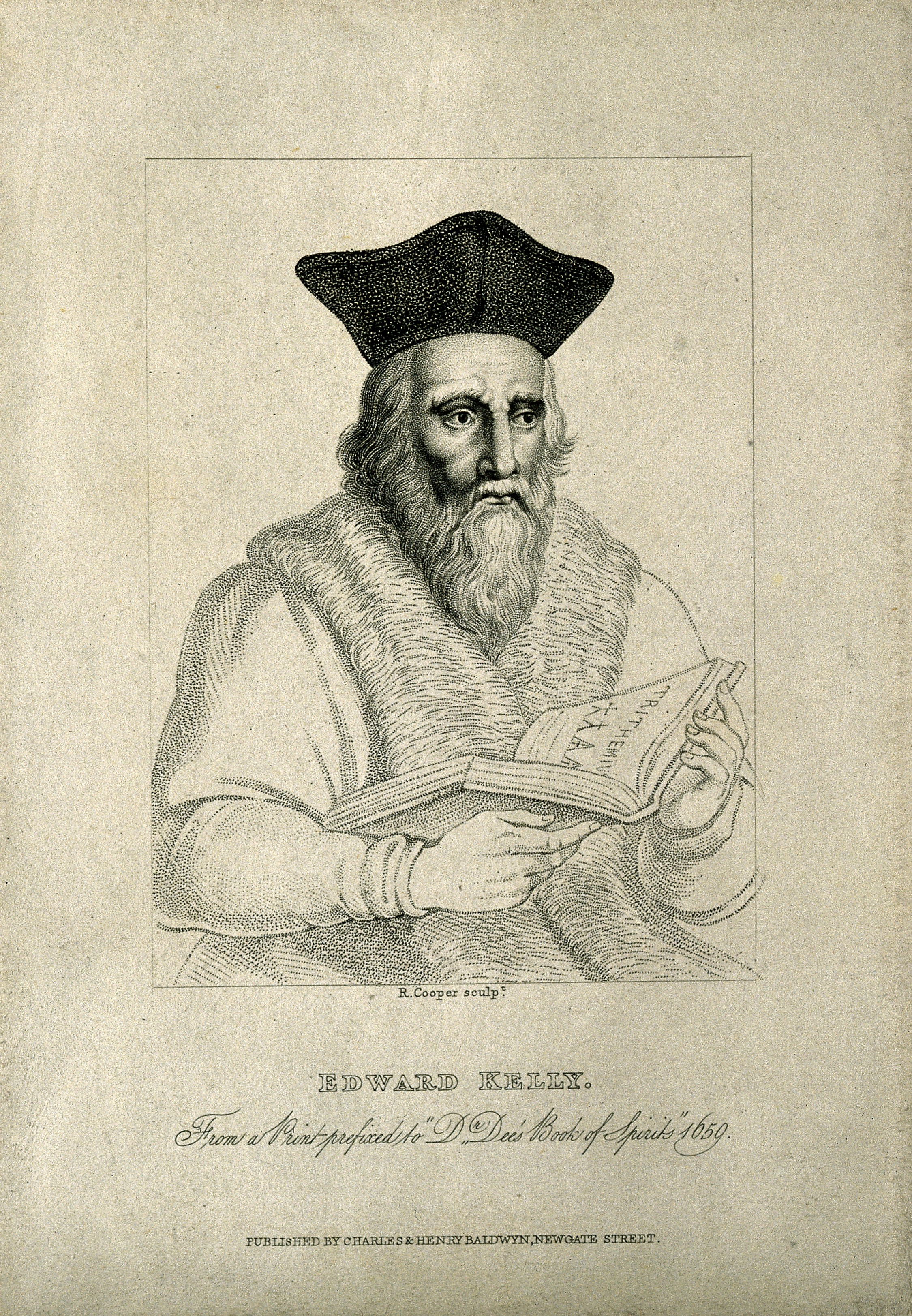 Edward Kelley. Stipple engraving by R. Cooper. Iconographic Collections Keywords: portrait prints; stipple prints; Edward Kelley